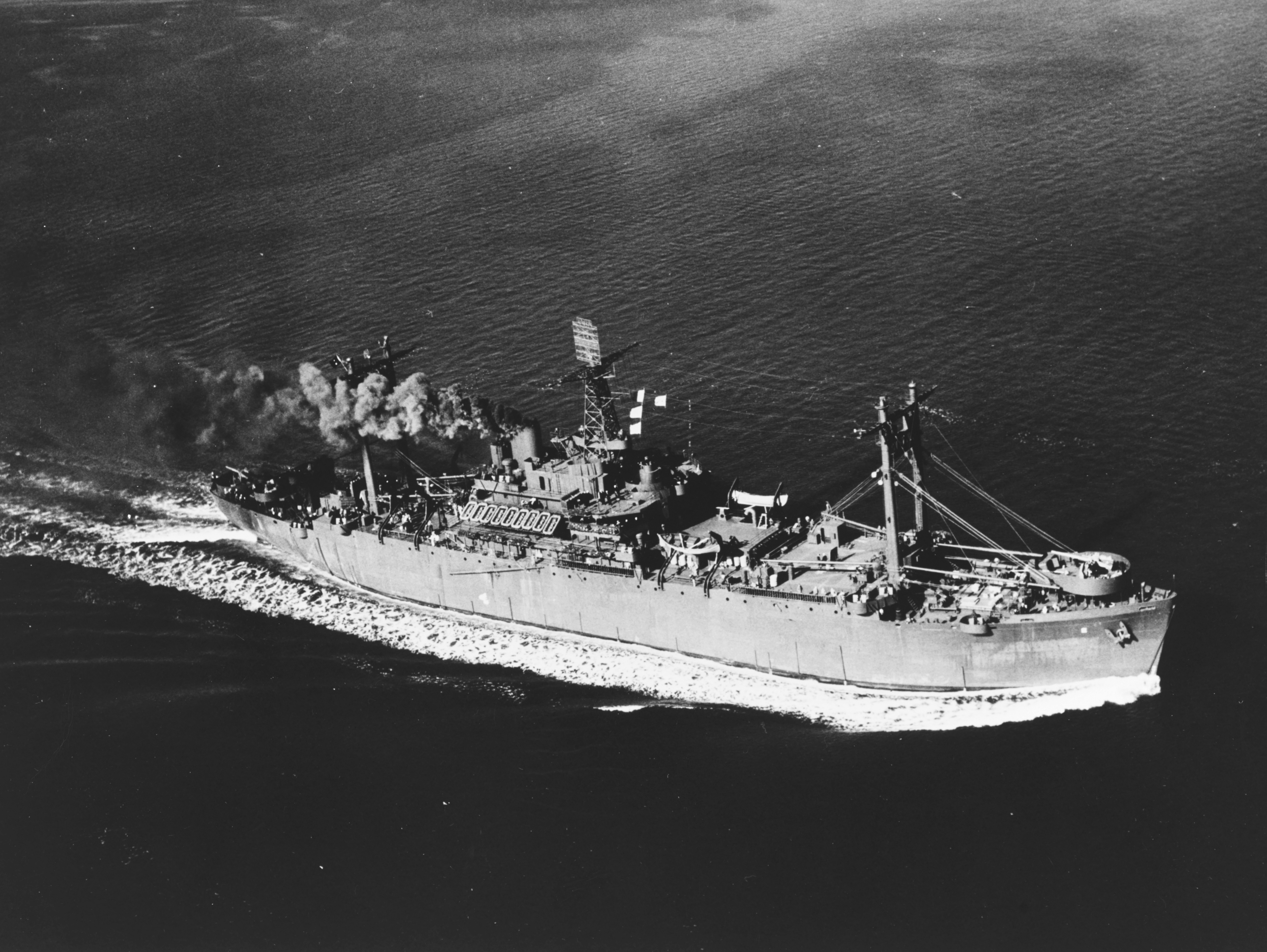 The U.S. Navy amphibious force command ship USS Blue Ridge (AGC-2) underway on 6 October 1943. Following trial runs in Long Island Sound, Blue Ridge departed New York City (USA) on 8 October 1943, to train in the Chesapeake Bay area out of Norfolk, Virginia (USA). On 1 November 1943, the ship put to sea with two destroyers, bound for the South Pacific.